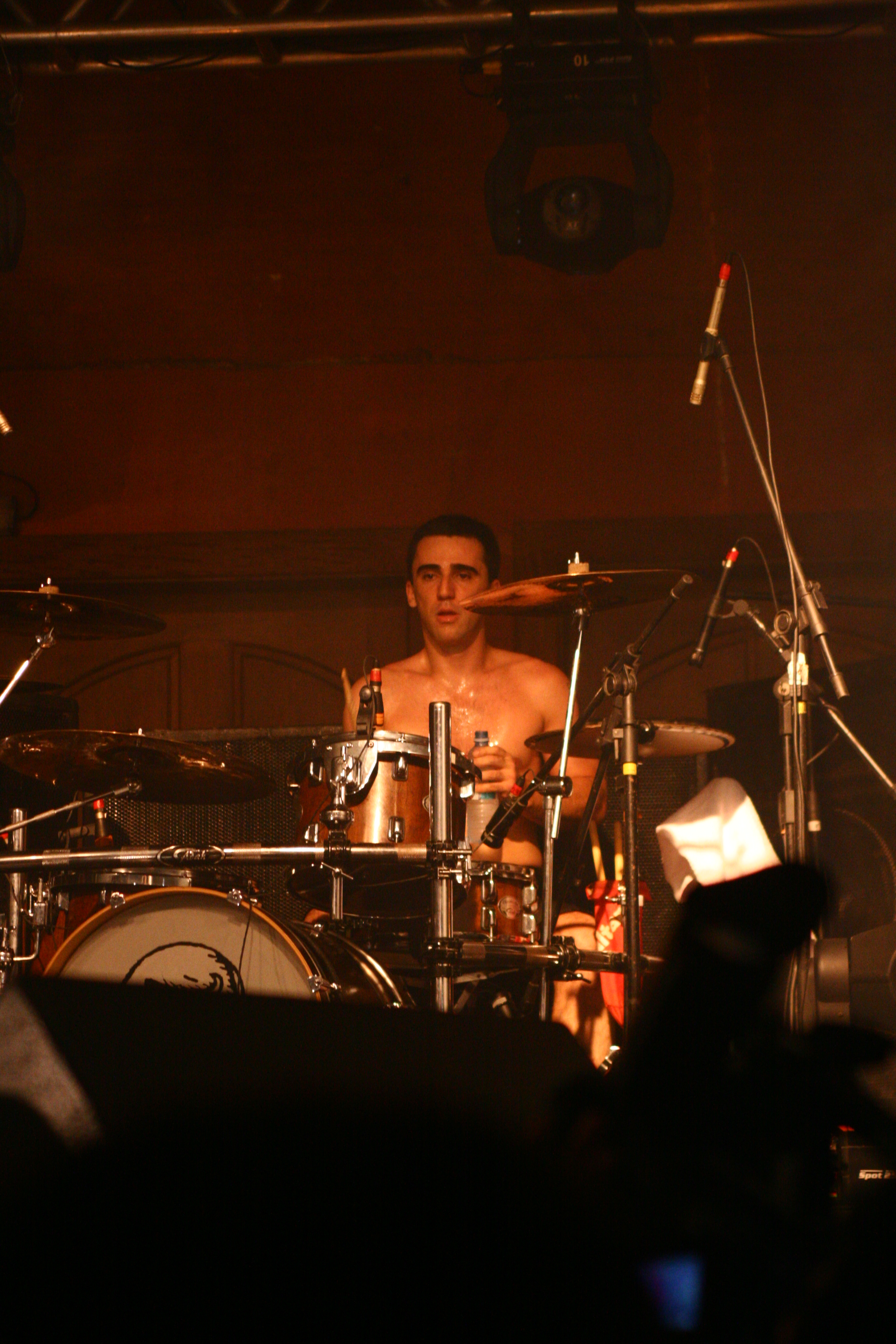 Brazilian drummer Bacalhau in 2007